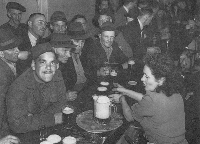 A Barmaid at Work in Wartime Sydney. Petty's Hotel, Sydney, 6pm, 1941. - see Six o'clock swill